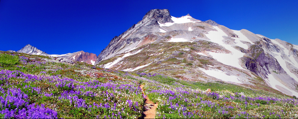 Wild flowers and Sahale Peak. Taken while hiking up the Sahale Arm in the North Cascades, Washington, US.